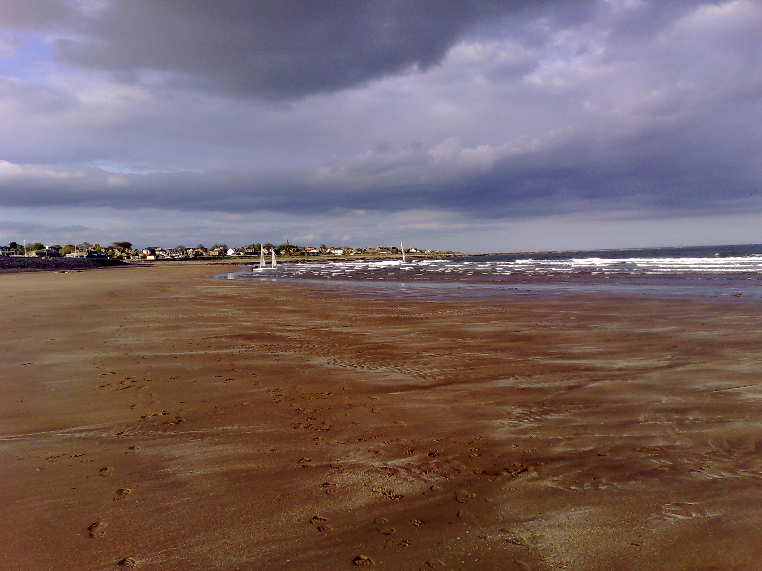 Carnoustie beach